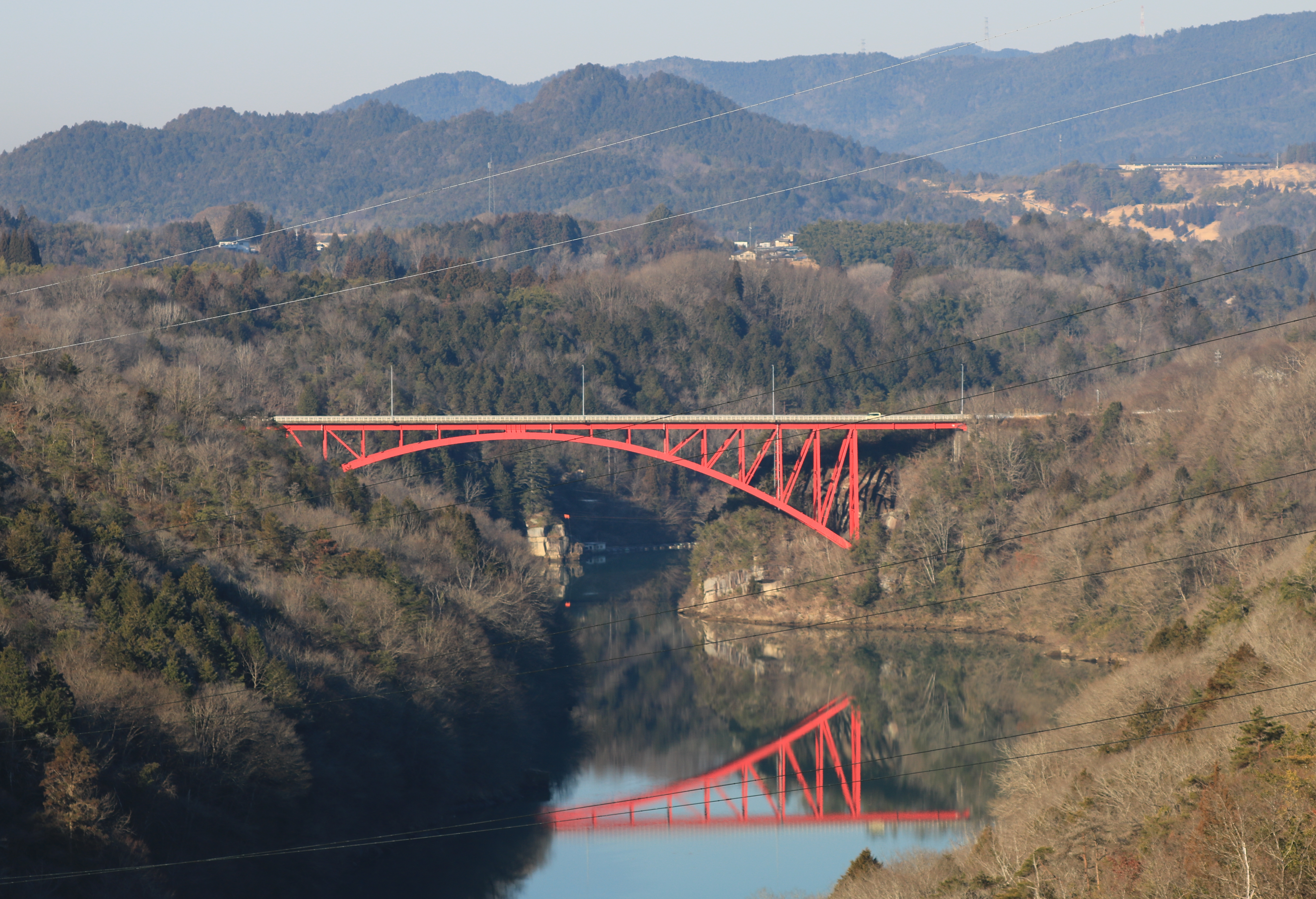 Mie Bridge (Mie-bashi), an arch bridge of Gifu Prefectural Road Route 410 (Naegi-Ena Line) over Kiso River seen from Shiroyama Bridge in Nakatsugawa, Gifu prefecture, Japan.